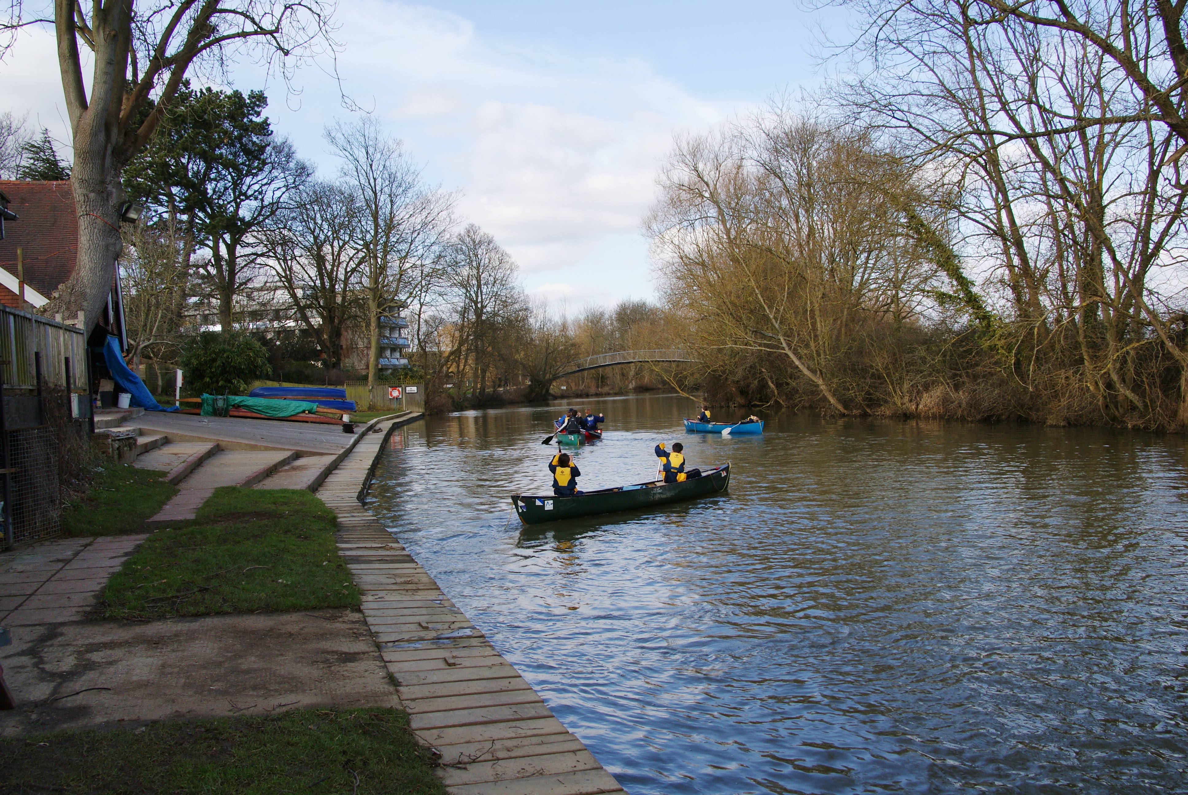 The River Cherwell at the Cherwell Boathouse In summer this is teeming with punts.